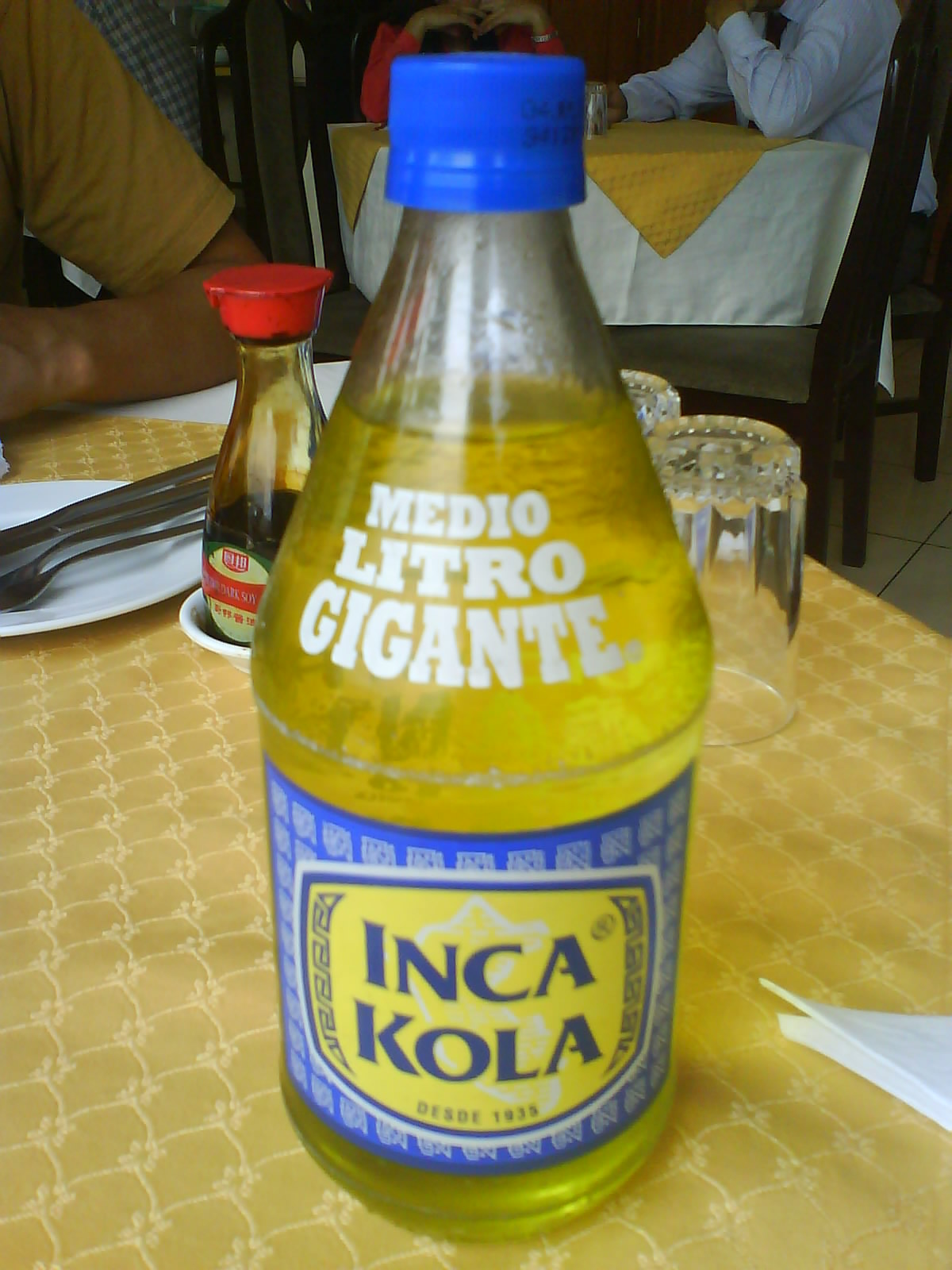 A big bottle of Inca Kola, knowed as 'La Gordita' (the fatty)